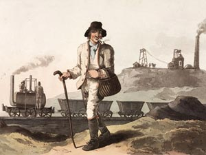 Photograph of The Collier, aquatint by Robert Havell published 1814, showing a locomotive on the Middleton Railway. To help clarify the location of the scene: Middleton village is to the right of the colliery chimney and the loco is facing in the direction of Leeds.